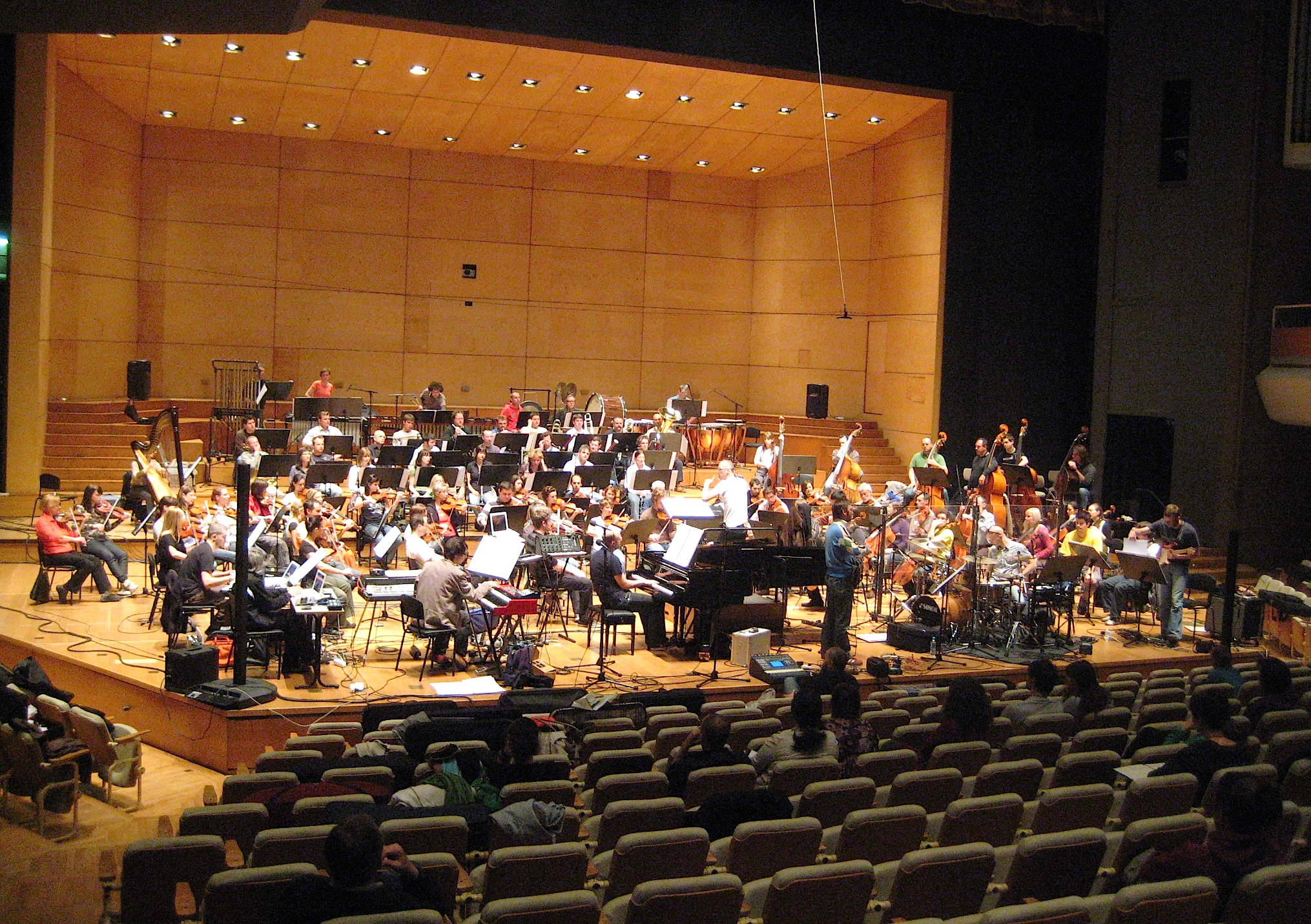 RTV Slovenia Symphony orchestra with the Laibach (Volkswagner) project in Cankarjev dom, Ljubljana